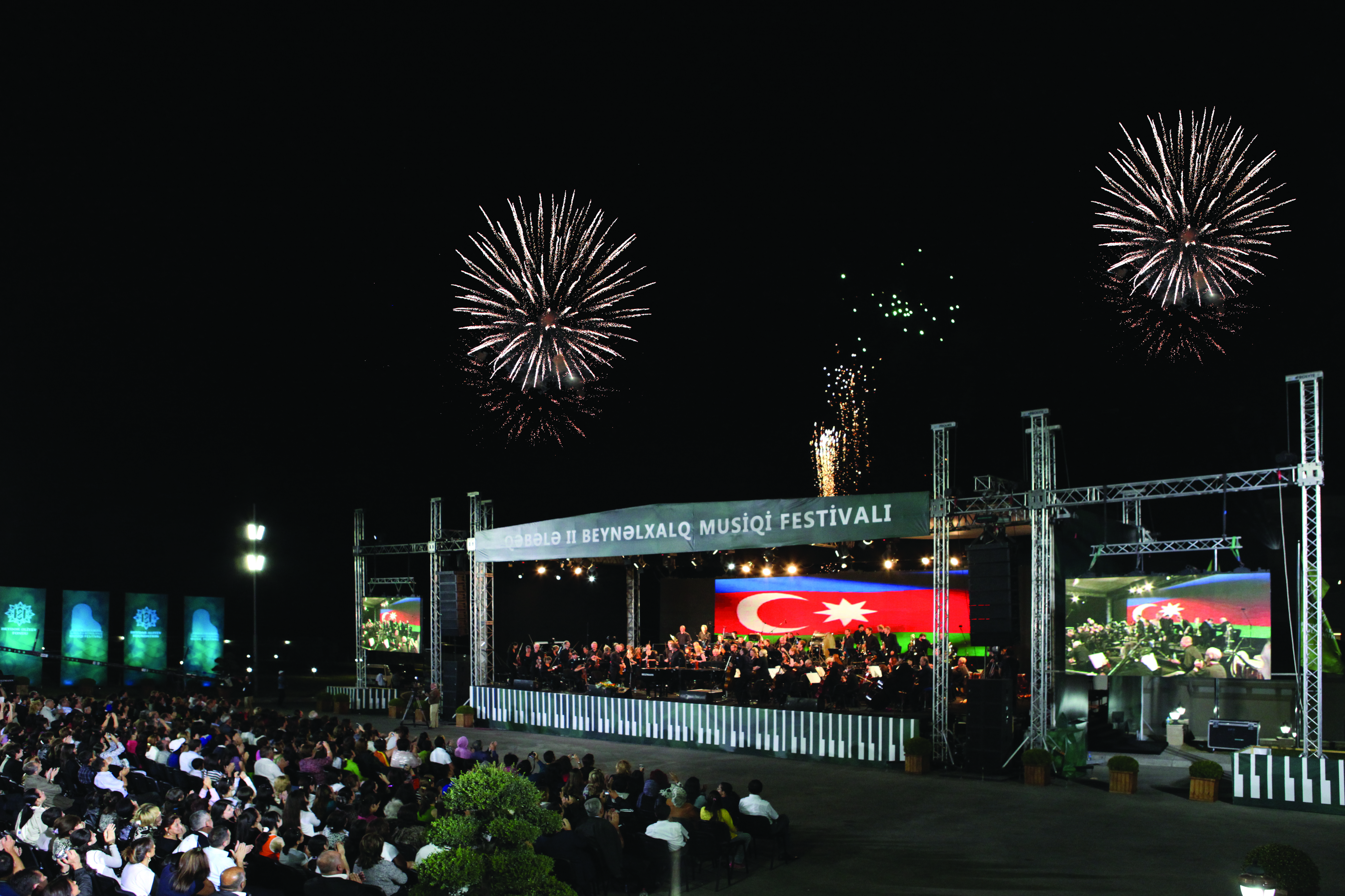 Closing ceremony Gabala International Music Festival